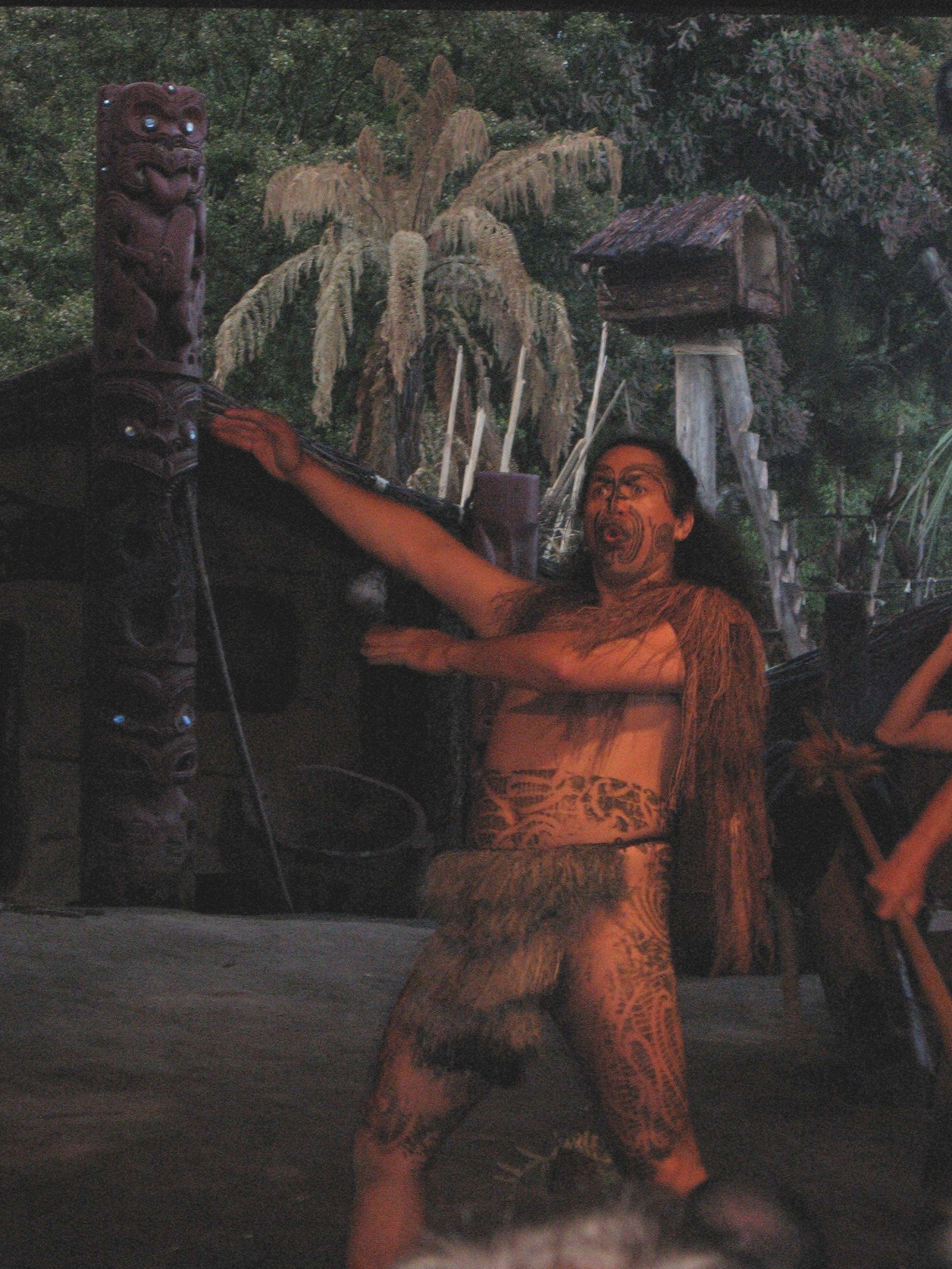 Original caption: One of the Maori warriors at Mitai performs the haka, a traditional dance that is now a global symbol of New Zealand.